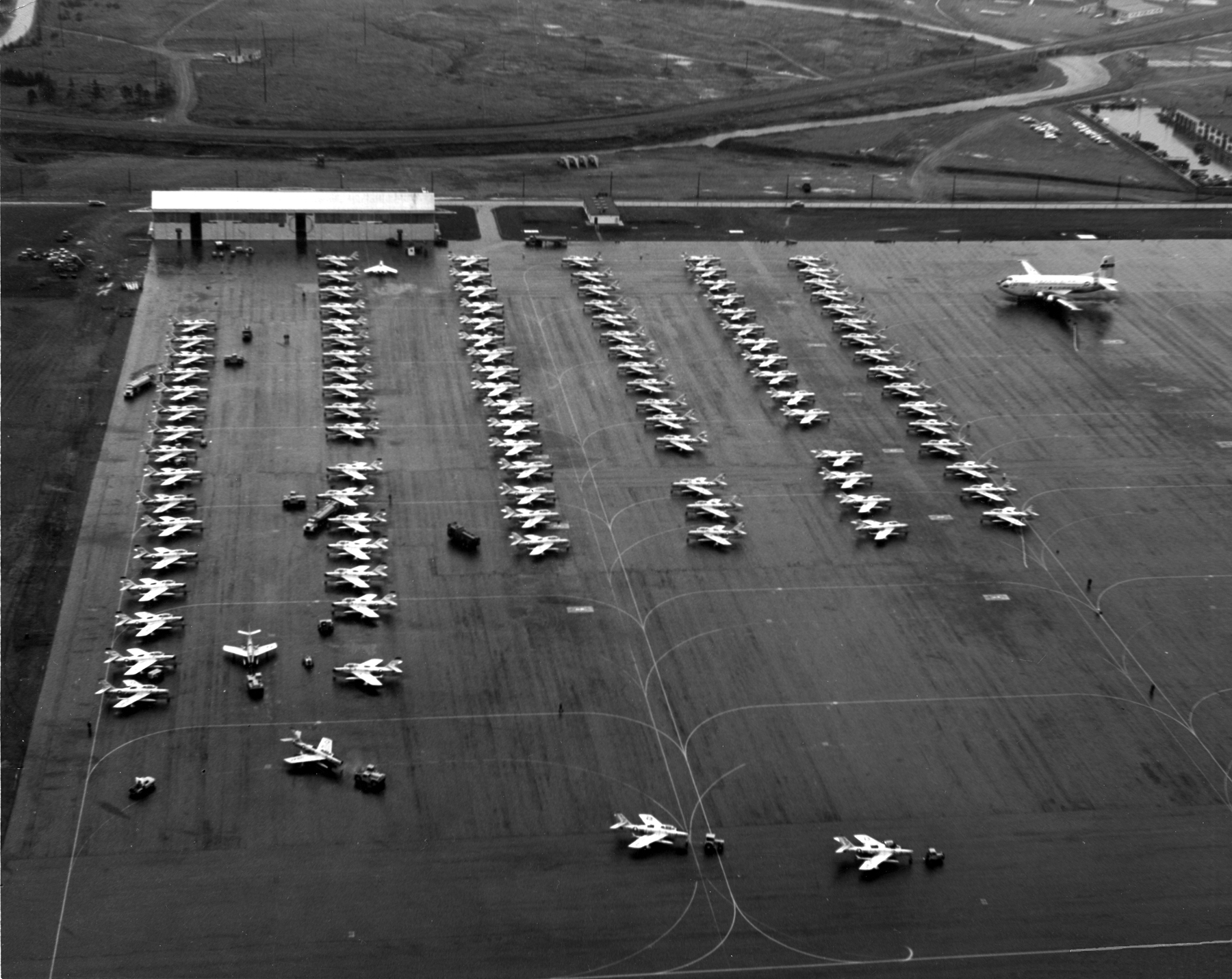 101 Republic F-84F Thunderstreak fighters of the federalized U.S. Air National Guard and a single Douglas C-124 Globemaster II at Canadian Forces Base Goose Bay, Newfoundland (Canada), in November 1961, prior to flying the Atlantic to Europe in response to the Berlin Crisis. Because of the long over-water distance to the next airfield in the Azores, the planes were towed to the end of the runway prior to takeoff to conserve fuel. During this Operation Stair Step deployment of more than 200 fighter aircraft (the largest overseas movement of a fighter force since World War II), not a single plane was lost.